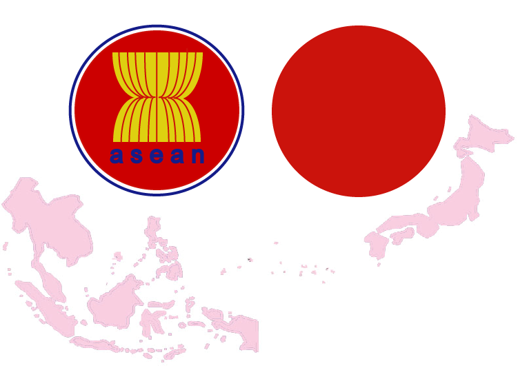 A self-made image on Japan-ASEAN relations. Thomas J. 09:28, 13 April 2007 (UTC)